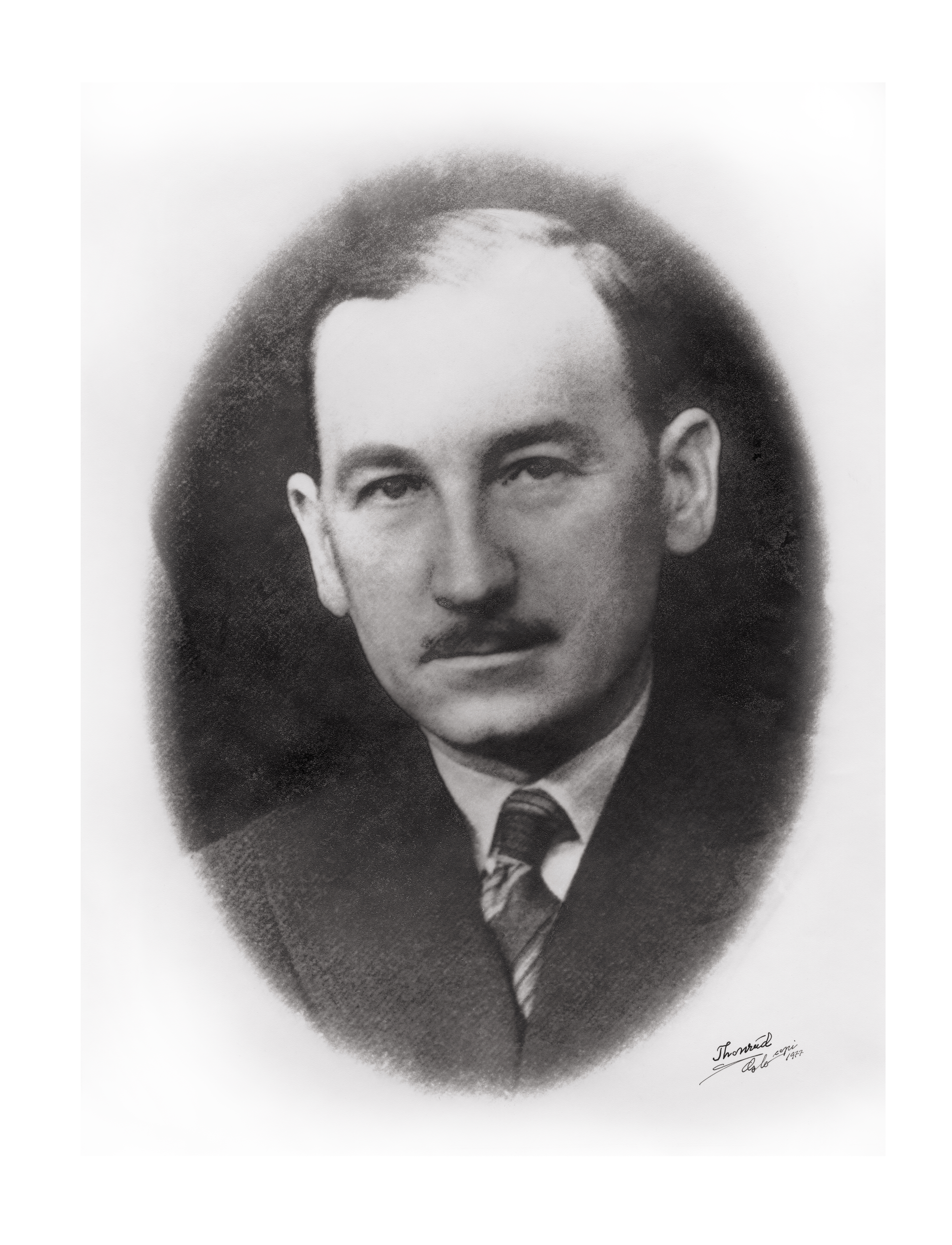 Frithjof Svendsen